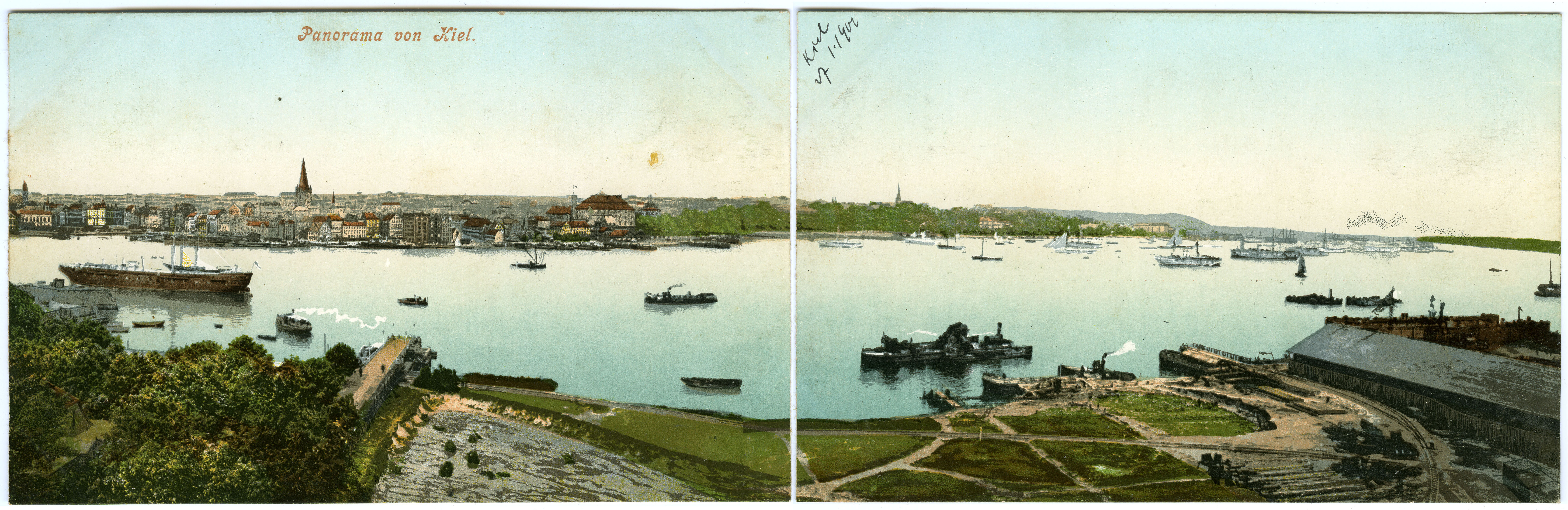 This two postcard panorama set is labelled 1902 and from a large cache of postcards from that era. It must have been printed in or prior to 1902. It presents a detailed image of the town of Kiel from across the Kiel Fjord, including period steam shipping and architecture.